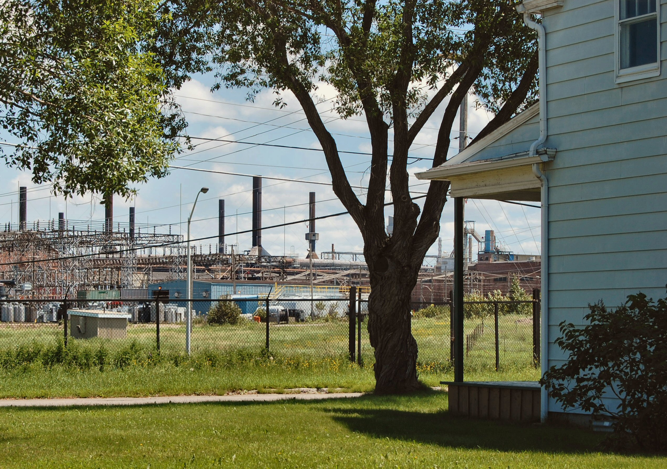 Arvida, Quebec